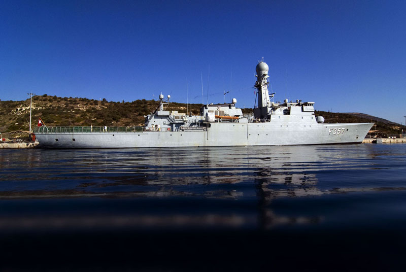 Danish navy ship F357 Thetis dockside in Souda Bay.